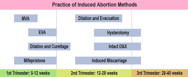 Chart of the practice of induced abortion methods. Created by Kaldari in Photoshop, April 15, 2006. Numerous sources were used in the creation of this chart (pro-choice, pro-life, and medical). Where sources conflicted, I have attempted to make the best judgement possible, generally favoring the medical literature or averaging the sources together. This chart does not reflect the frequency of any method's use, simply the period during which a certain method may be effectively used. For example, induced abortions in the third trimester are extremely rare by any method, and generally only practiced in extreme circumstances.